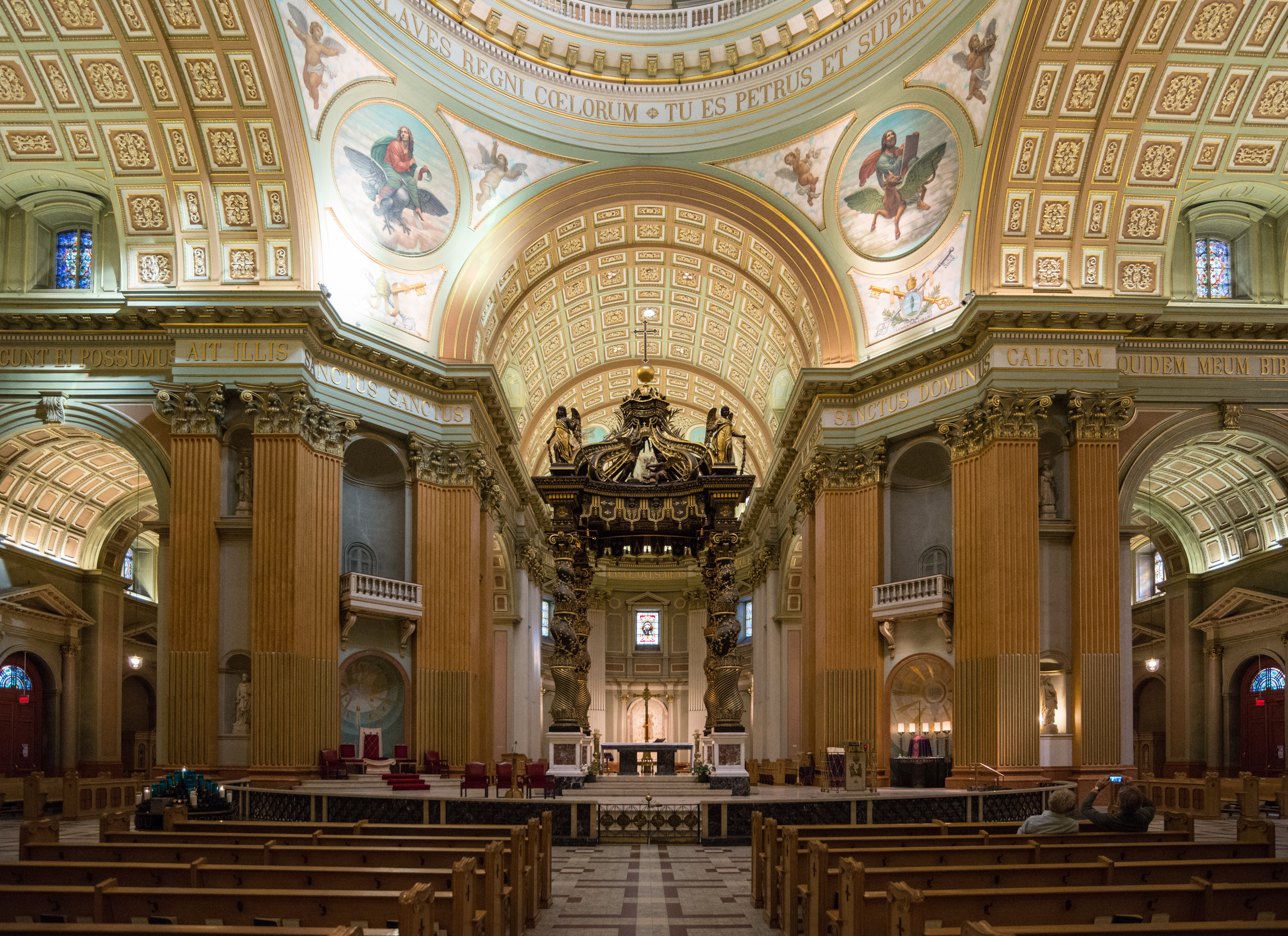 An interior view of Basilique-cathédrale Marie-Reine-du-Monde de Montréal